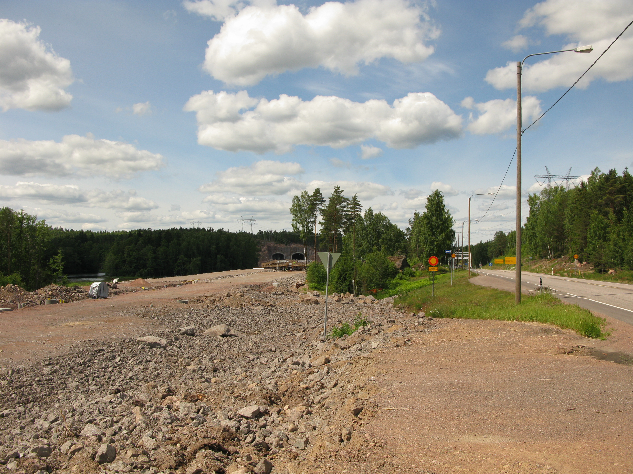 New and old Finnish national road 7 in Pyhtää, Finland.